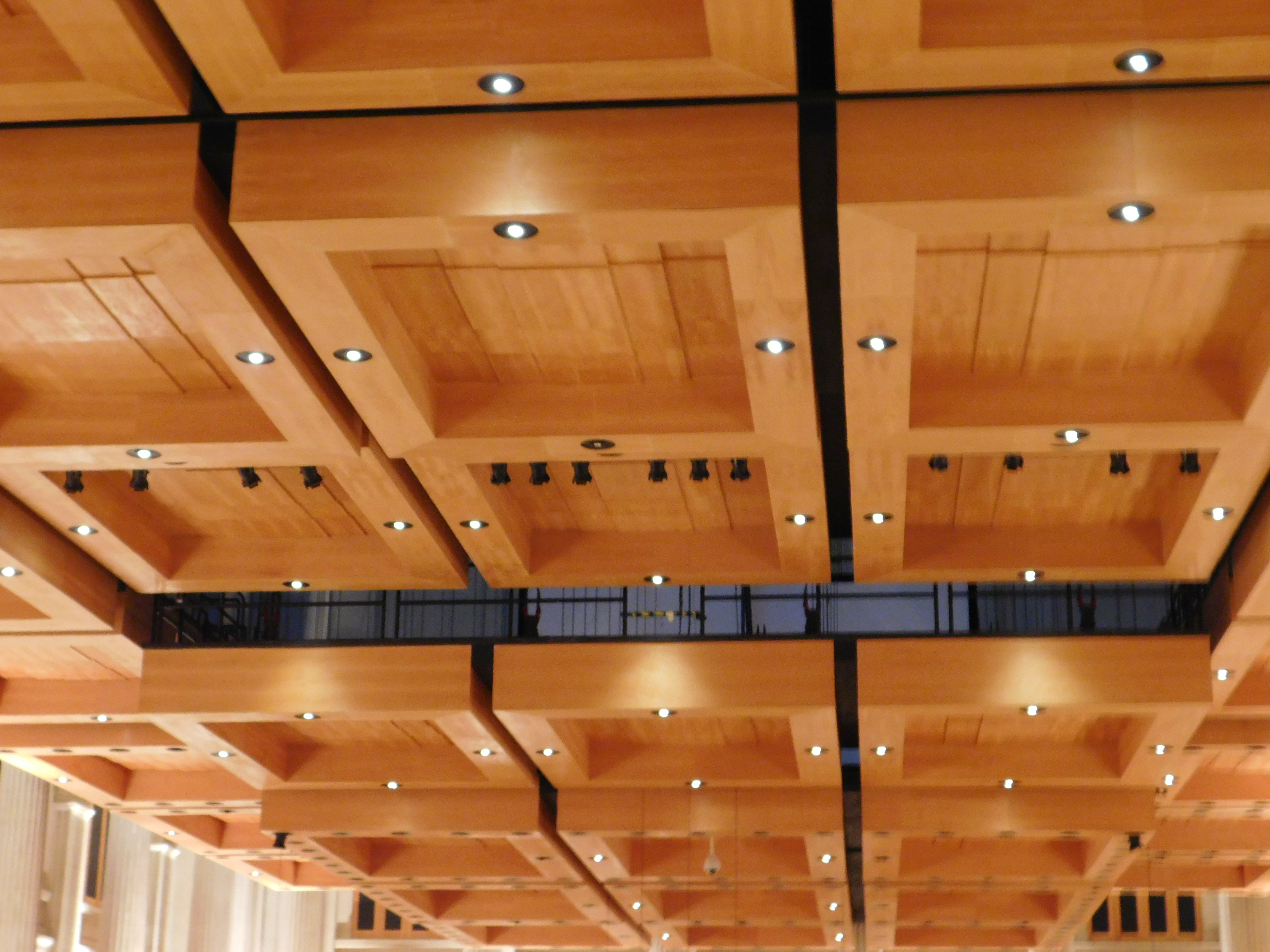 The Júlio Prestes Cultural Center, which is located in the Júlio Prestes Train Station in the old north central section of the city of São Paulo, Brazil, was inaugurated on July 9, 1999. The building has been totally restored and renovated by the São Paulo State Government, as part of the downtown revitalization in that city. It houses the Sala São Paulo, which has a capacity of 1498 seats and is the home of the São Paulo State Symphonic Orchestra (OSESP).